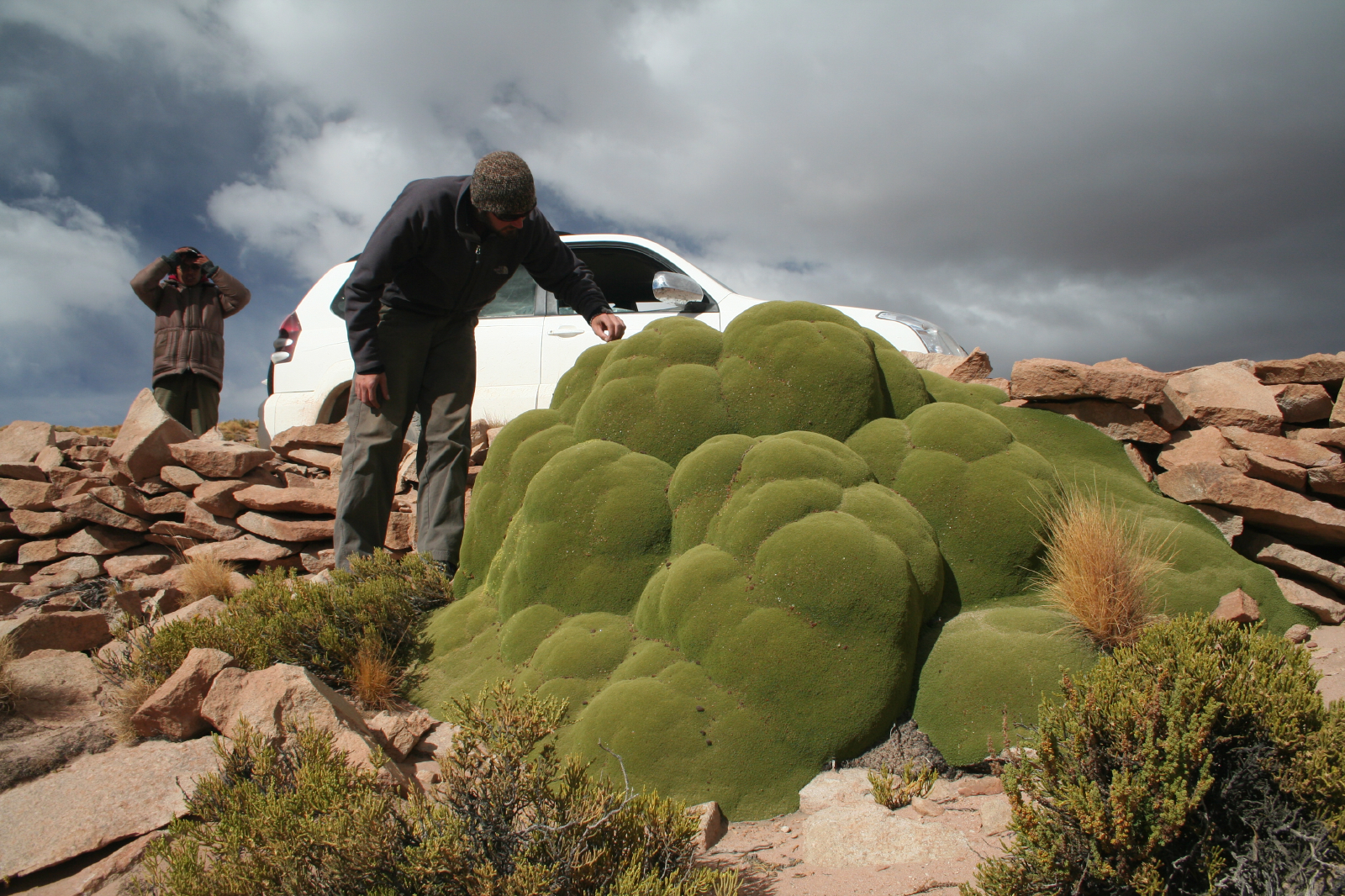 These Alpine cushion plants (Azorella compacta), locally known as llareta, are some of the weirdest Apiaceae I have ever seen. The sap they produce smells a lot like pine resin, and is used locally to help ignite fires, as it is highly flammable. I wonder if all those terpenes are functioning like a sort of antifreeze in the plant?